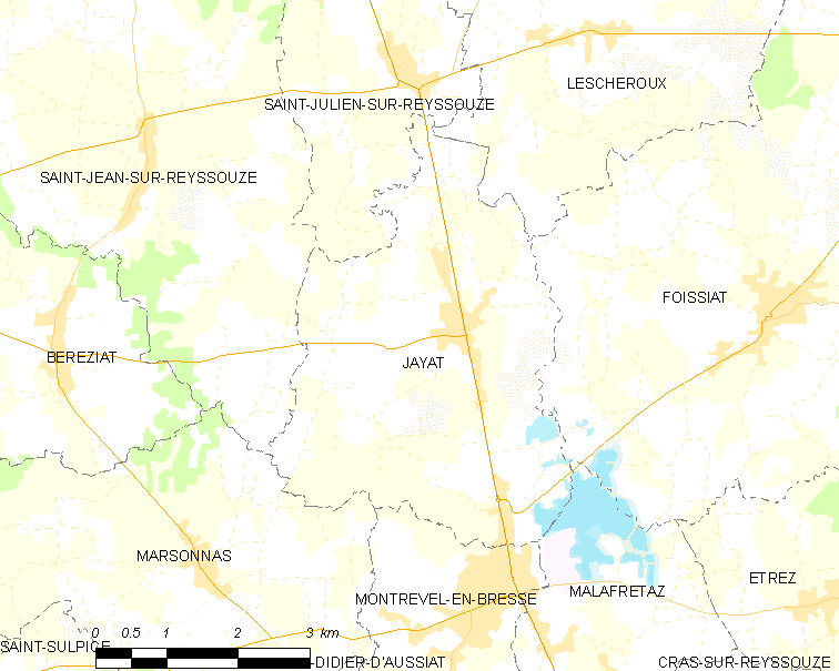 Map of French commune: Jayat Map commune FR insee code 01196.png